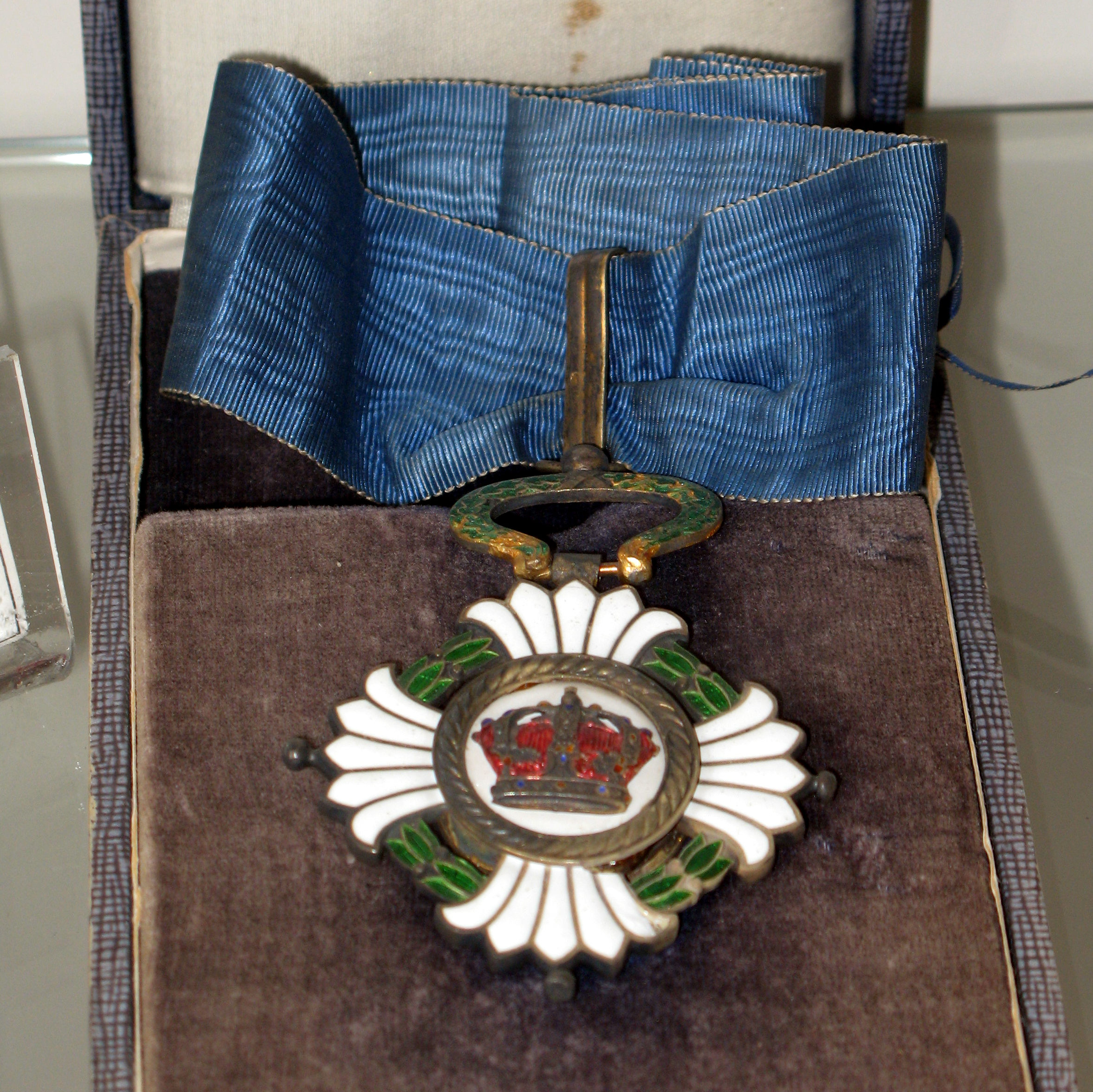 Order of The Yugoslav CrownMusée des Spahis, Senlis